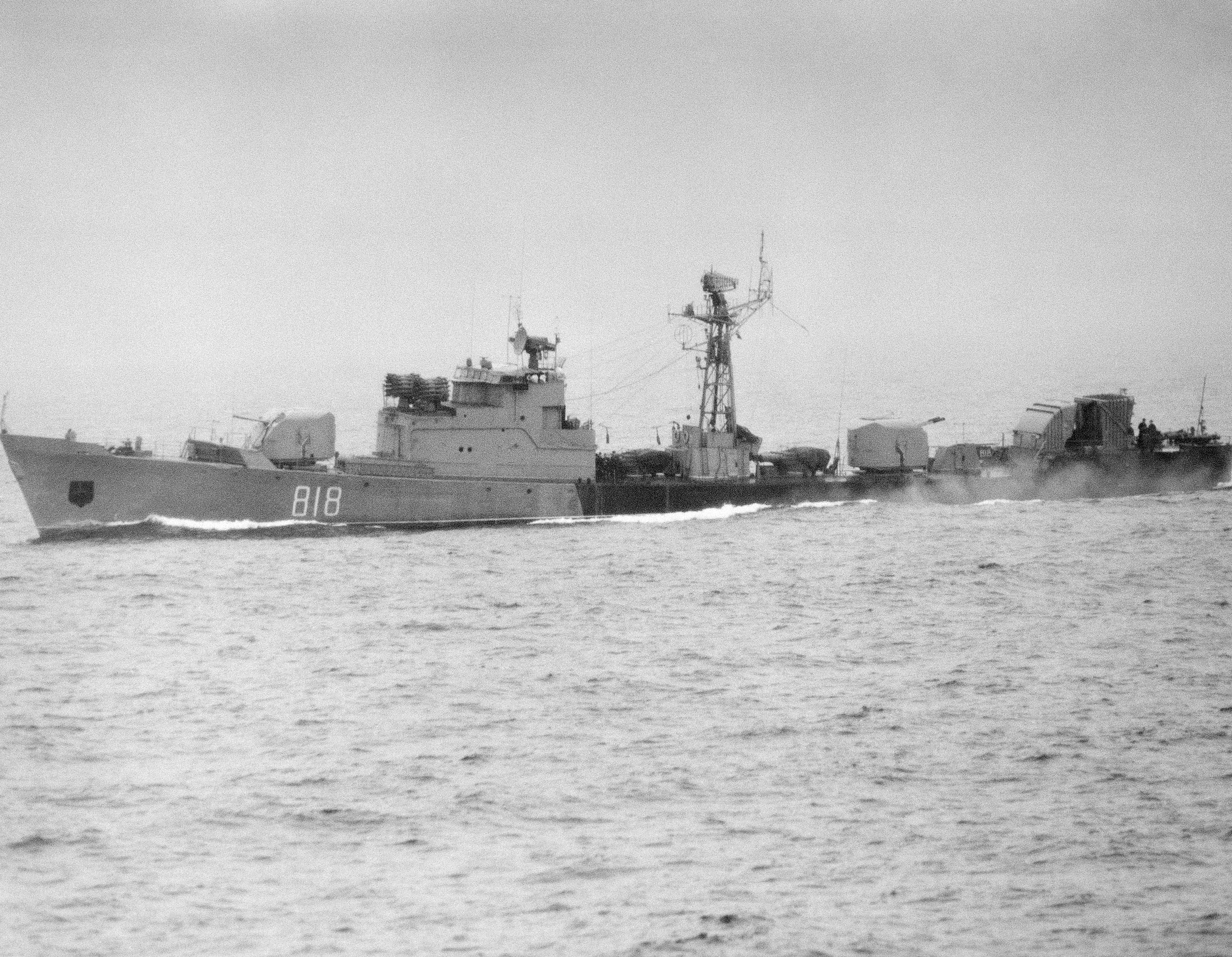 A port bow view of the Soviet Mirka I Class Corvette underway.